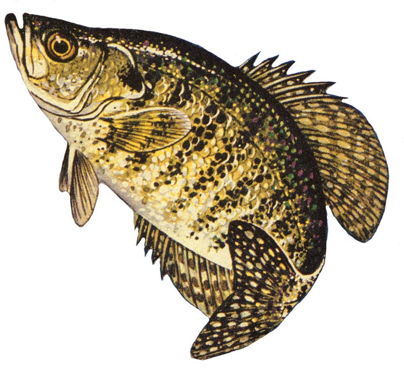 White Crappie (Pomoxis annularis)